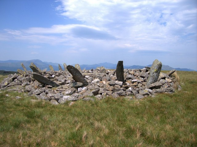 Bryn Cader Faner stone circle. The stone circle [Note: actually a cairn not a true stone circle] with northern Snowdonia as a backdrop.